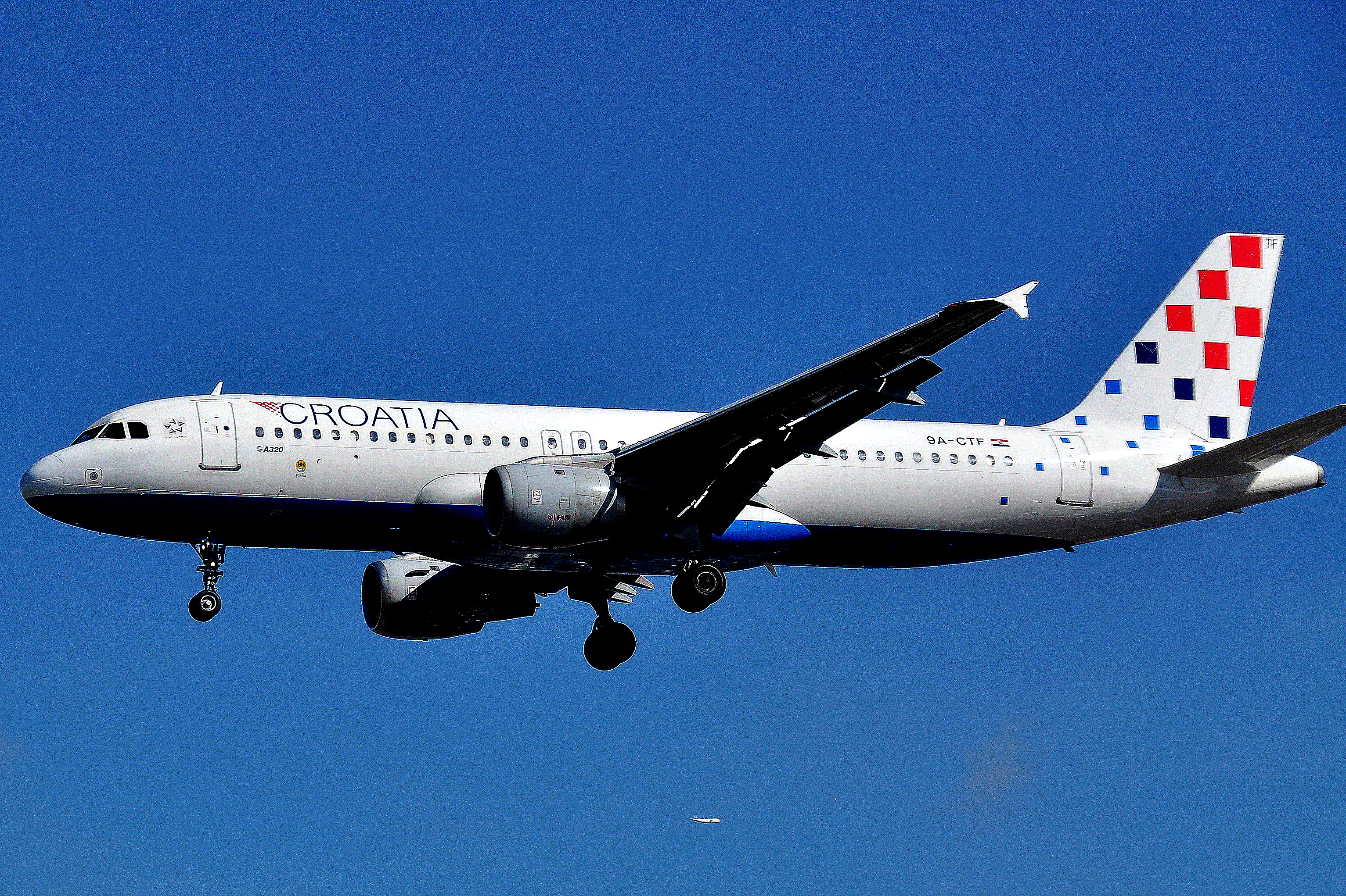 Airbus A320-212 - Croatia Airlines (9A-CTF)